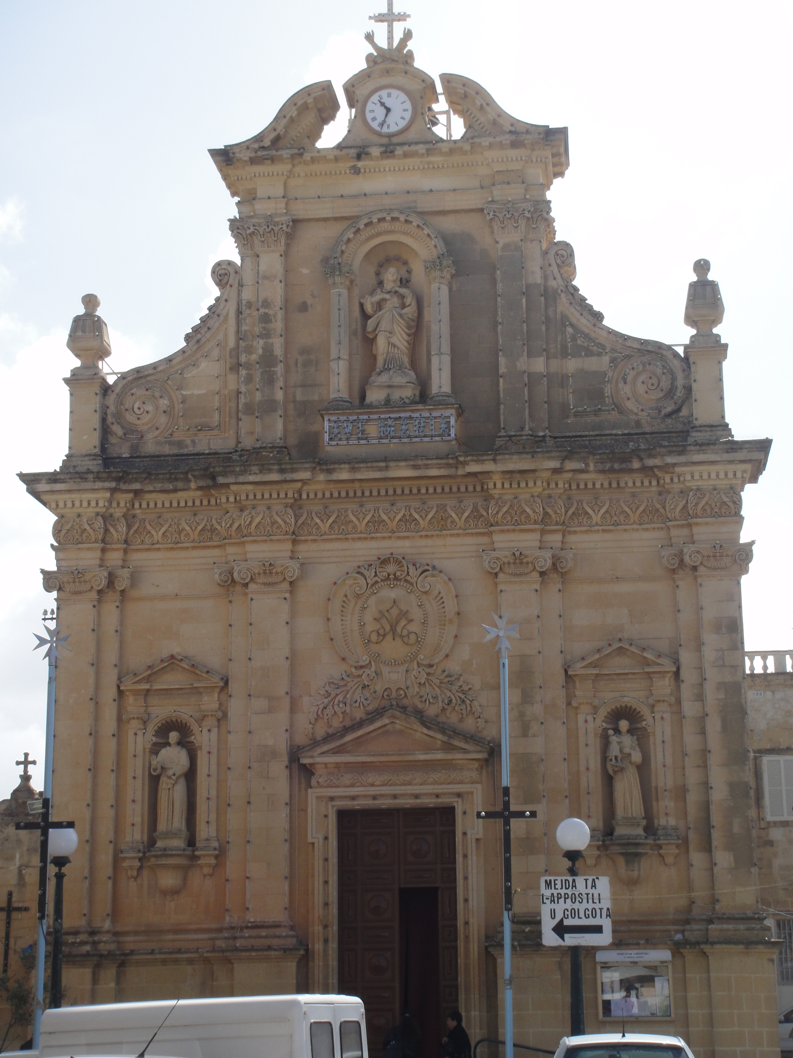 The church of St Francis of Assisi in Victoria Gozo Malta.